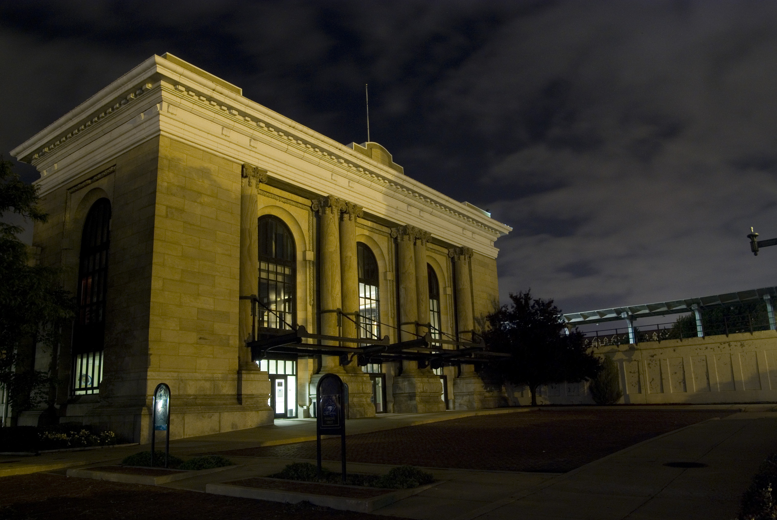 Wichita's former Union Station. There has been no passenger rail service to Wichita since the end of the Lone Star in 1979.